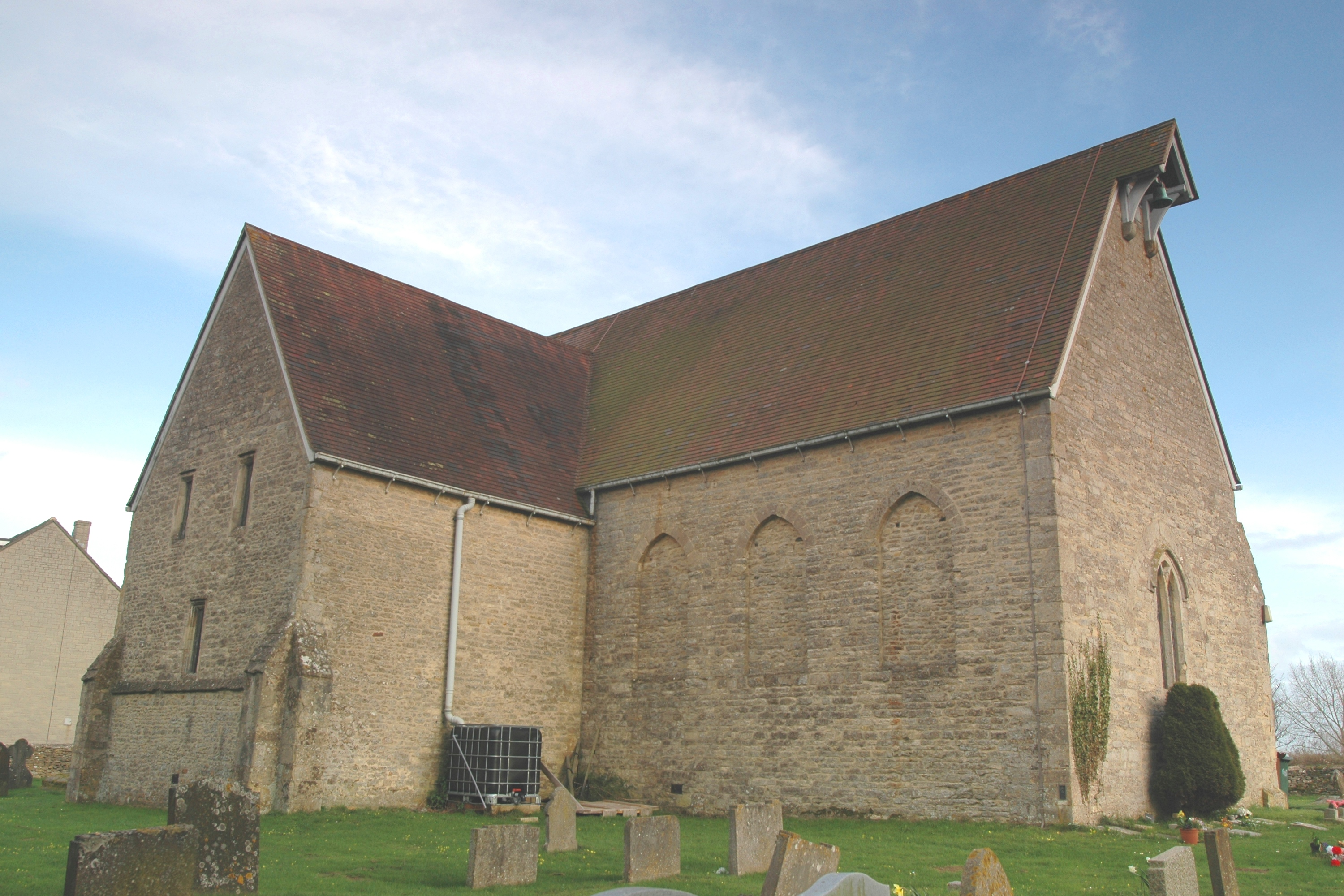 Church of England parish church of St Giles, Wendlebury, viewed from the northwest